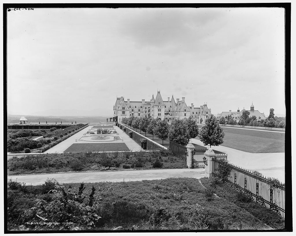 Biltmore House, with the Biltmore gardens "Italian Garden" (center), "Esplanade" (right), and "South Terrace" (far left). At the Biltmore Estate, Asheville, North Carolina. From a 1902 photograph by William Henry Jackson (1843–1942) for the Detroit Publishing Company. Glass negative. Photo used for postcard purposes. The Library of Congress, Washington, D.C.